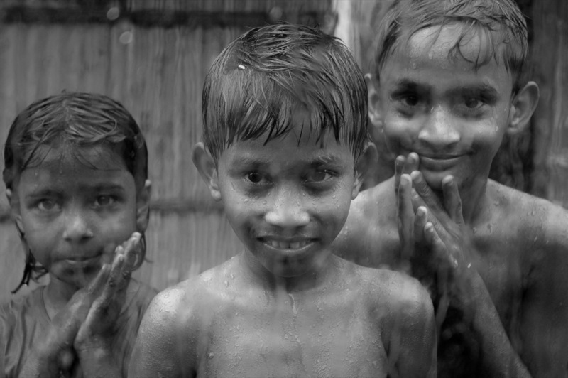 Original caption: (...) the rain can be incredible here and people just go on living their everyday lives as if they are not getting completely soaked to the bone! crazy!rain and kids II